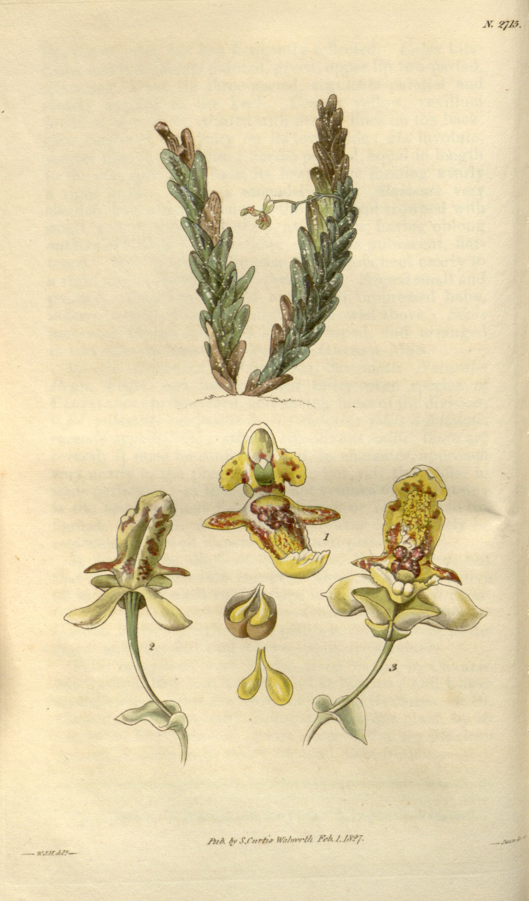 Illustration of Lockhartia imbricata